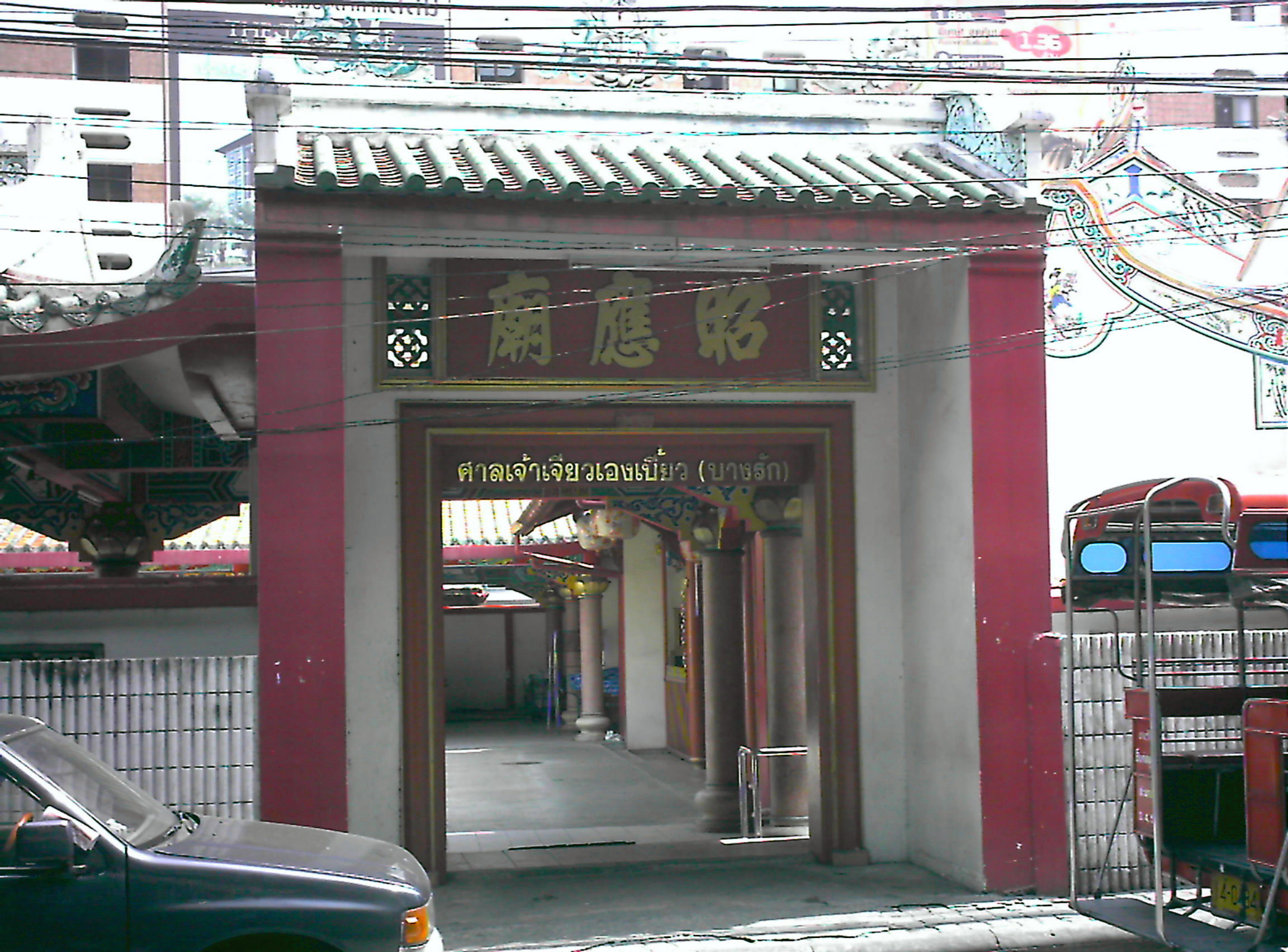 Hainan Temple near Saphan Taksin Station, Bangkok, Thailand. 中文（香港）: 泰國，曼谷，挽叻縣，昭應廟